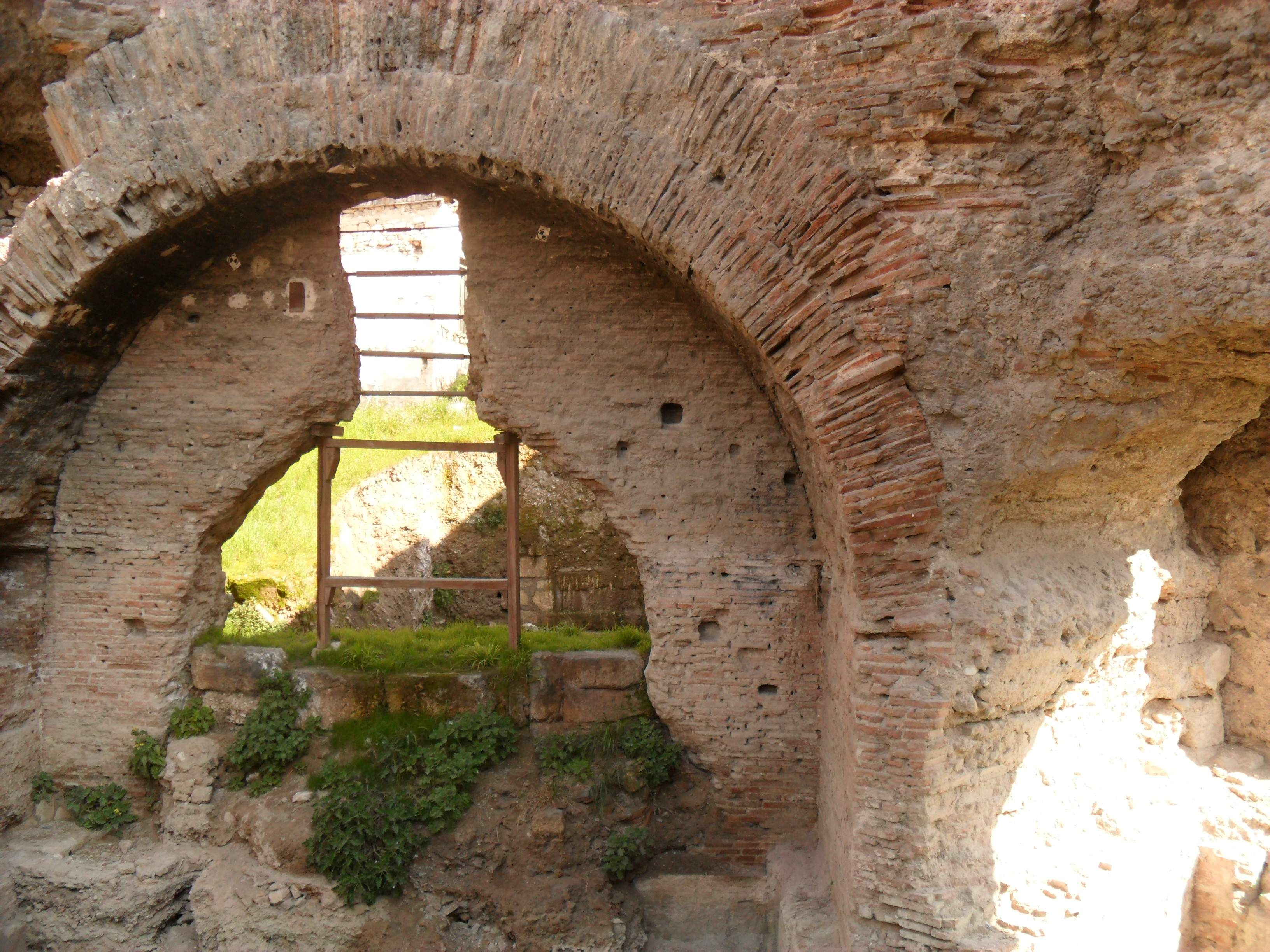 Roman bath in Tarsuss